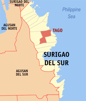 Map of the Surigao del Sur showing the location of Tago